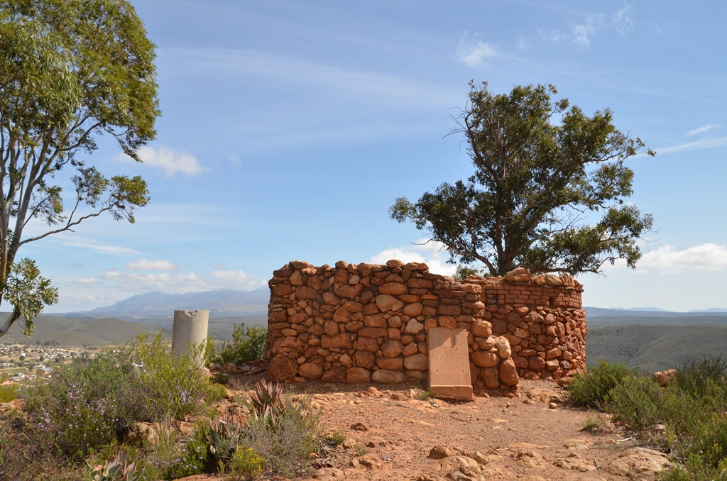 This historic fort was erected during the Anglo-Boer War by the British military authorities and the so-called Town Guards for the defence of Uniondale. Four similar structures were built at the time at Uniondale. This media shows a South African Protected Site with SAHRA file reference 9/2/096/0022.